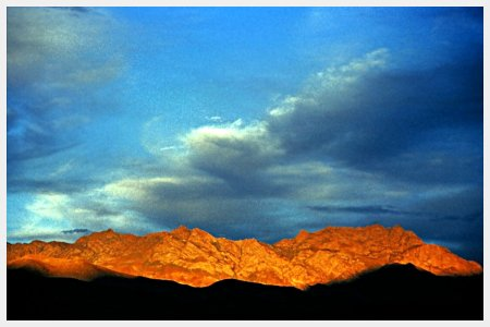 Sunset in the mountains of Kargil.